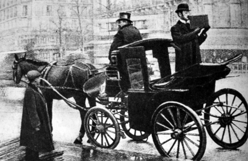 Prószyński filminig Aeroscope in Paris 1909.